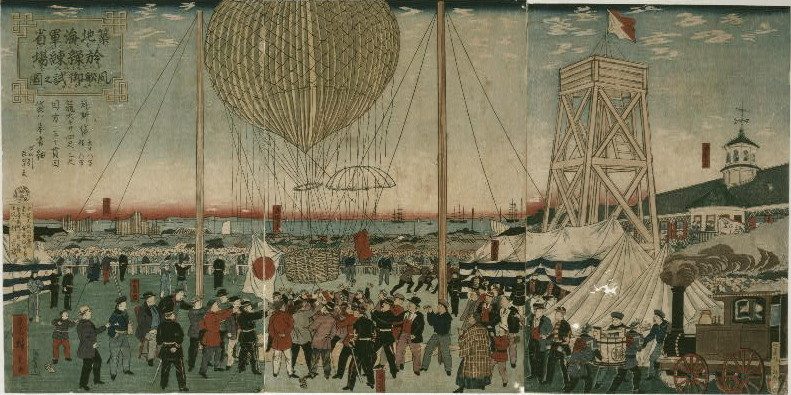 Tsukiji Kaifunshō Sōrenjō ni oite fūsen otameshi no zu. Japanese triptych print showing foreigners gathered around a hot air balloon surrounded by a crowd of spectators. 築地海軍省於鍛錬場風船御試之図